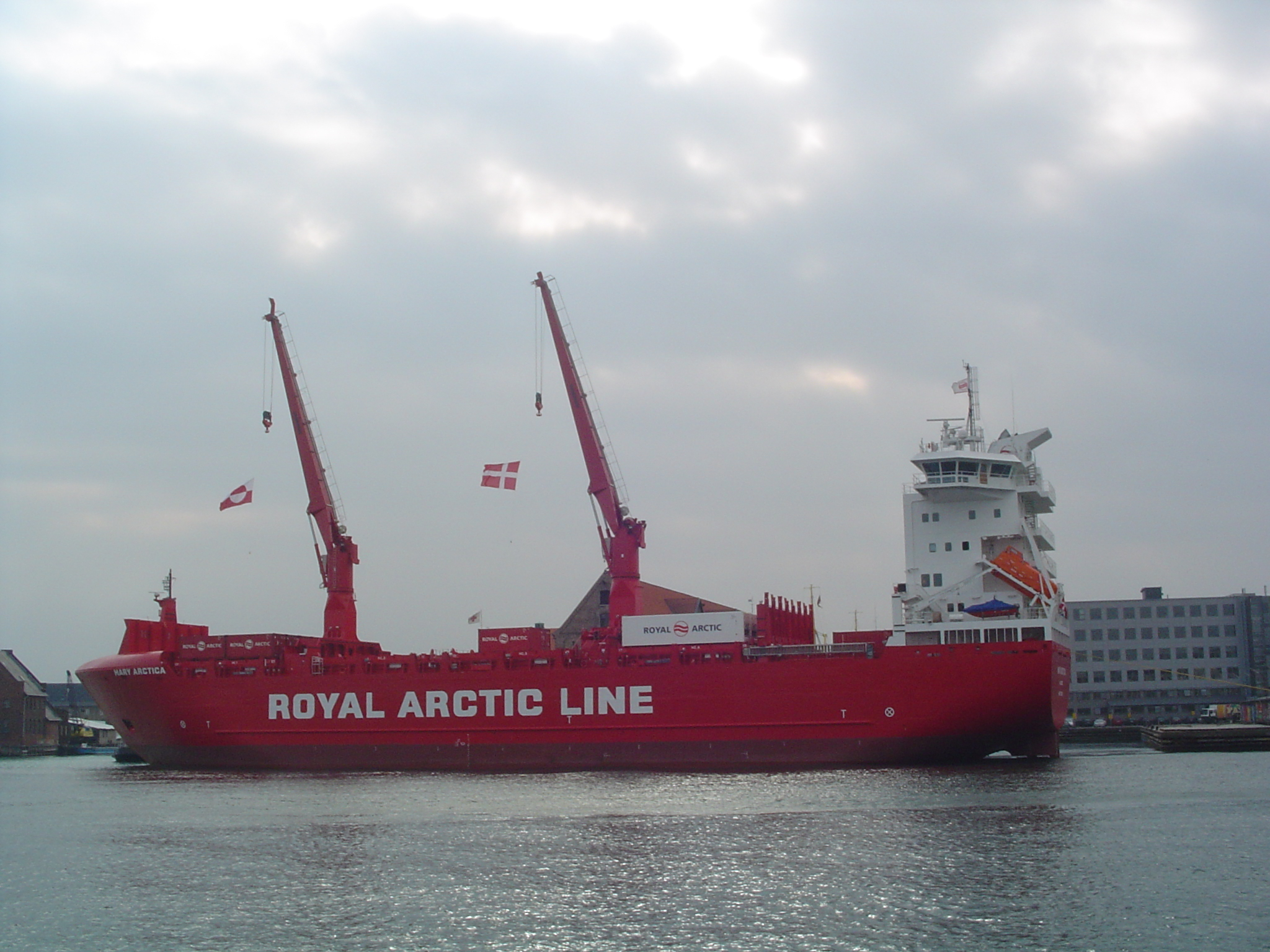 A crane on a "small" container ship the Mary Arctica. IMO Number: 9311878 MMSI Number: 220364000 Callsign: OXGN2 Length: 113 m Beam: 23 m Taken by me in April 2005, in Copenhagen harbour. An cut version is a image:Container_ship_crane.jpg